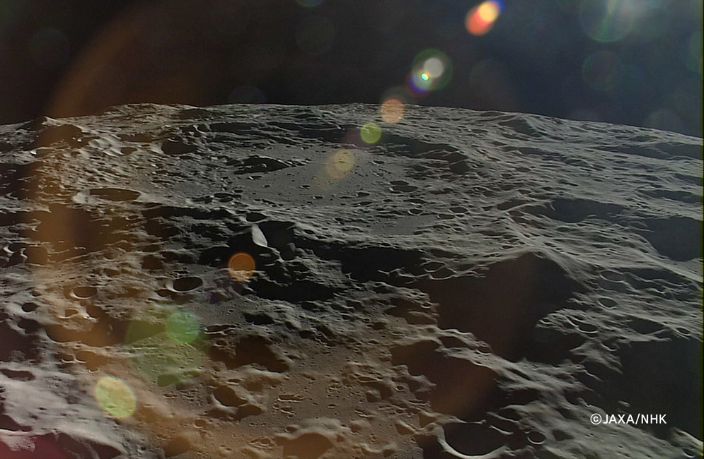 image by Kaguya HDTV courtesy of JAXA/NHK